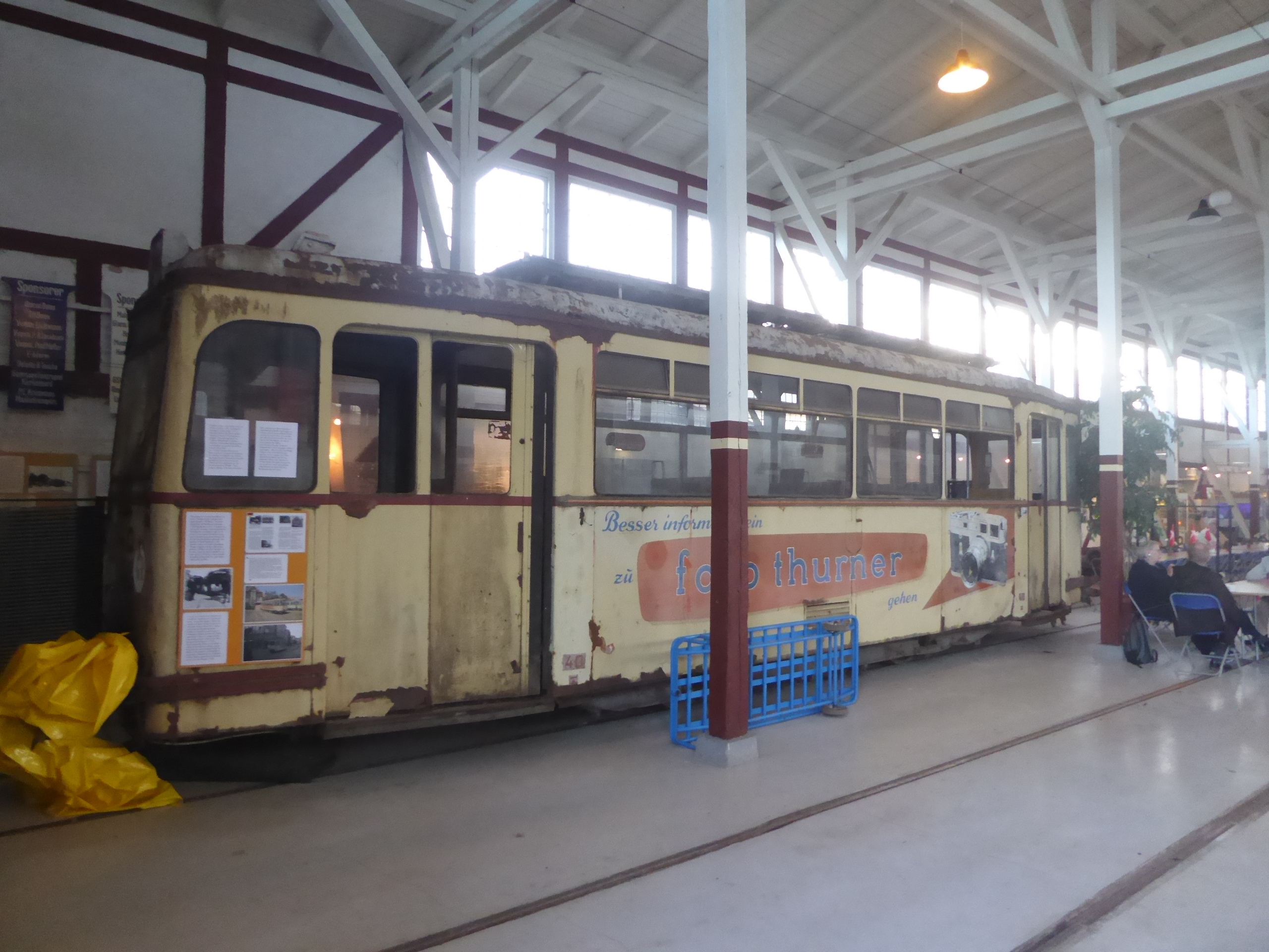 Old tram from Flensburg, SFV 40 build in 1952, at Sporvejsmuseet Skjoldenæsholm in Denmark.